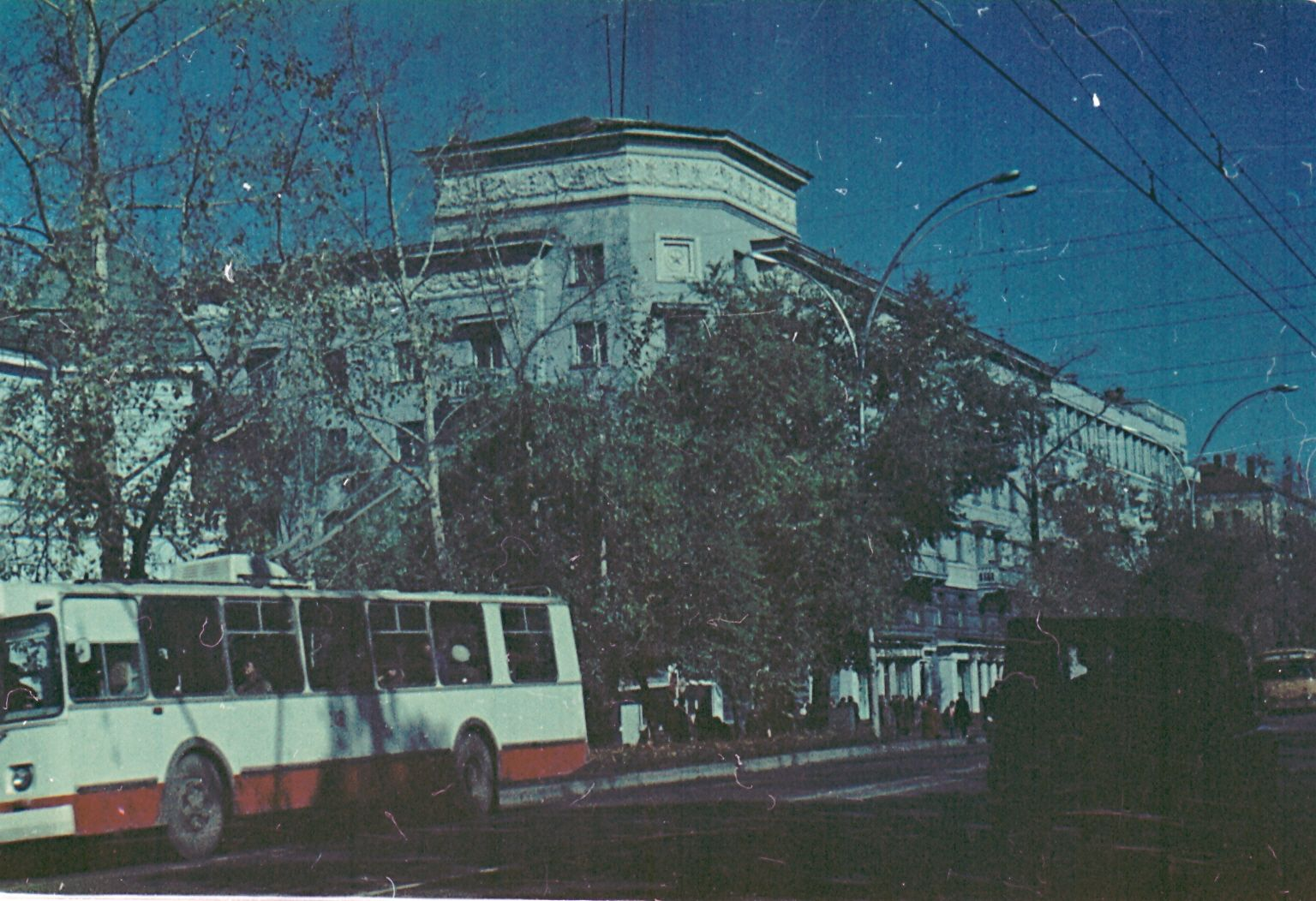 Trolleybuses in Khabarovsk